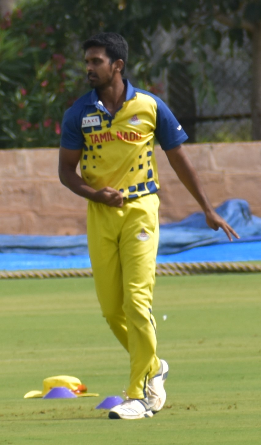 Indian cricketer Murugan Ashwin during the 2019-20 Vijay Hazare Trophy in Alur, Bangalore.